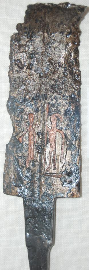 Roman sword fragment with simplified depictions of Mars and Victoria. The sword was discovered in a Przeworsk culture warrior's grave in Podlodów, Tomaszów Lubelski County in Poland. Currently on exhibition at the Regional Museum in Tomaszów Lubelski.